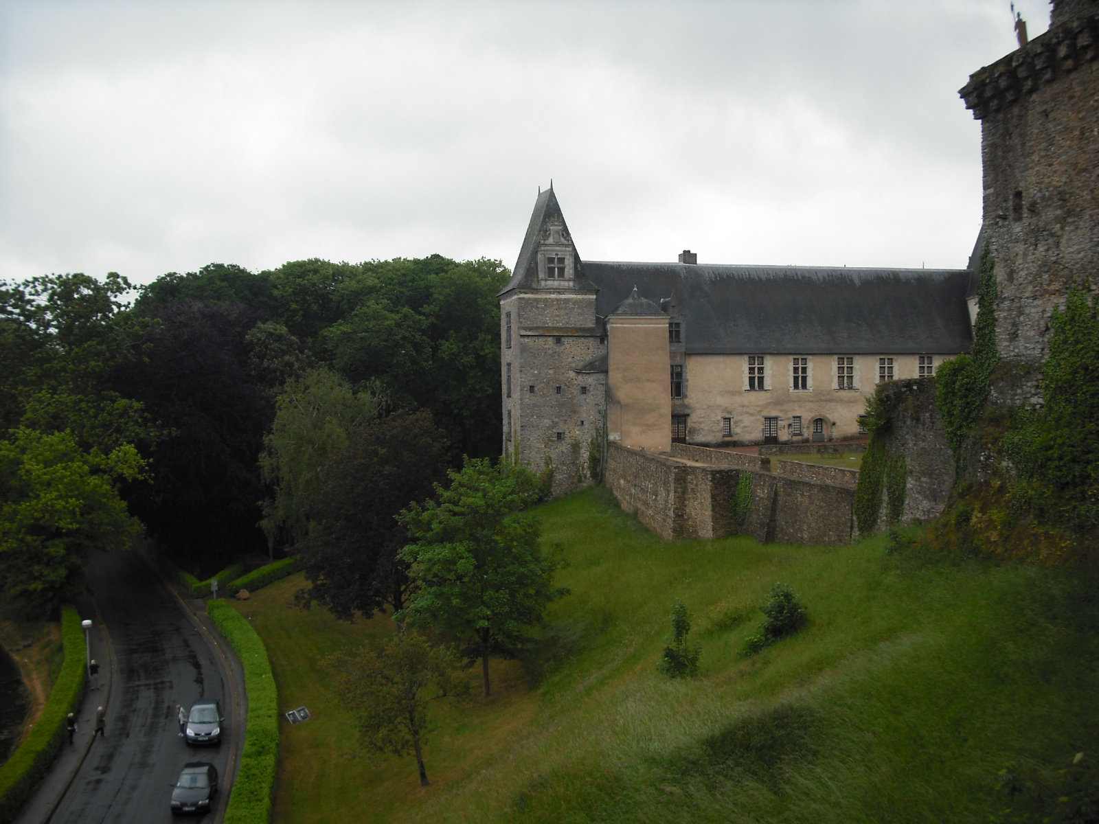 Curtain wall and Bâtiment des Gardes, château of Châteaubriant, France.